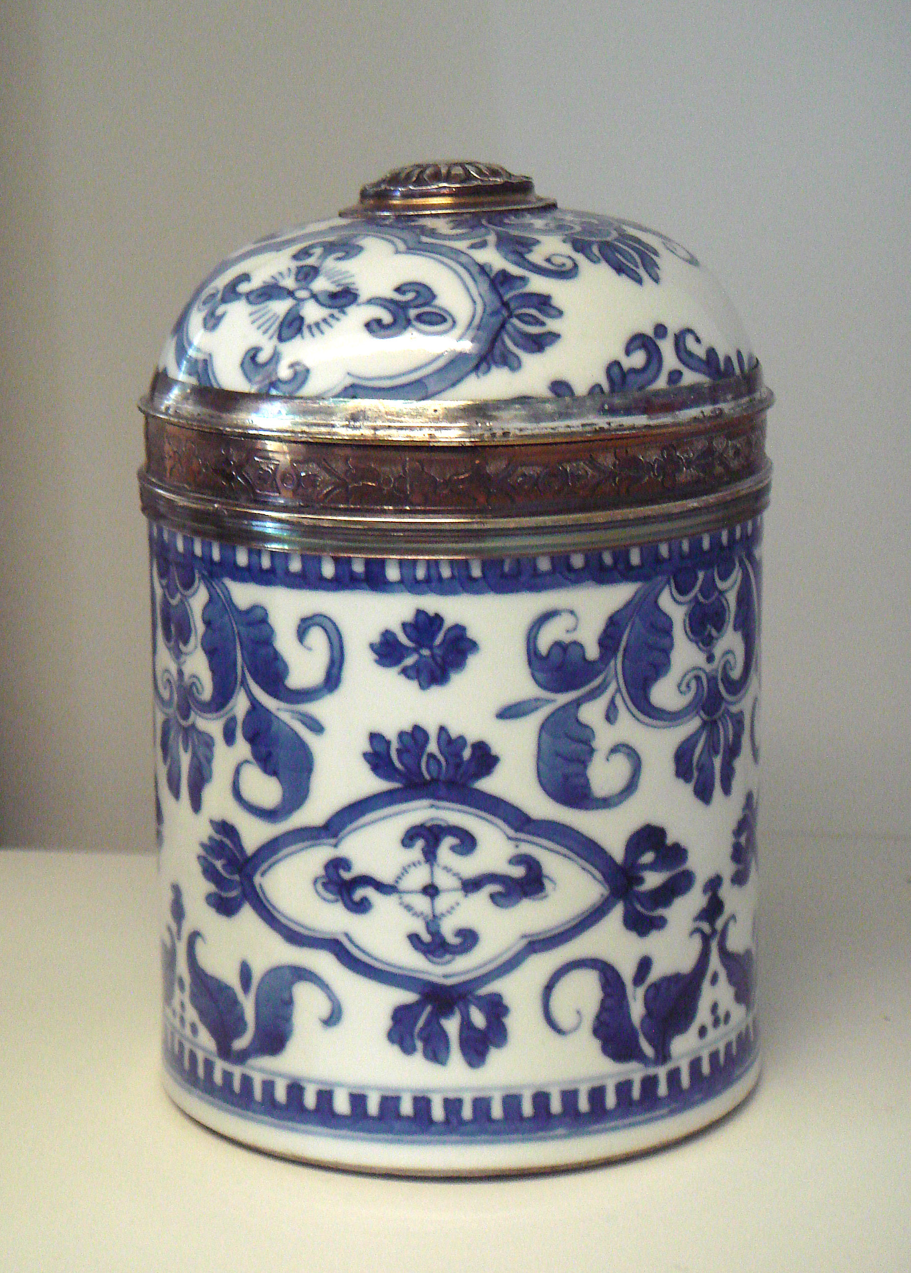 Kangxi porcelain with French silver decoration 1717-1722.